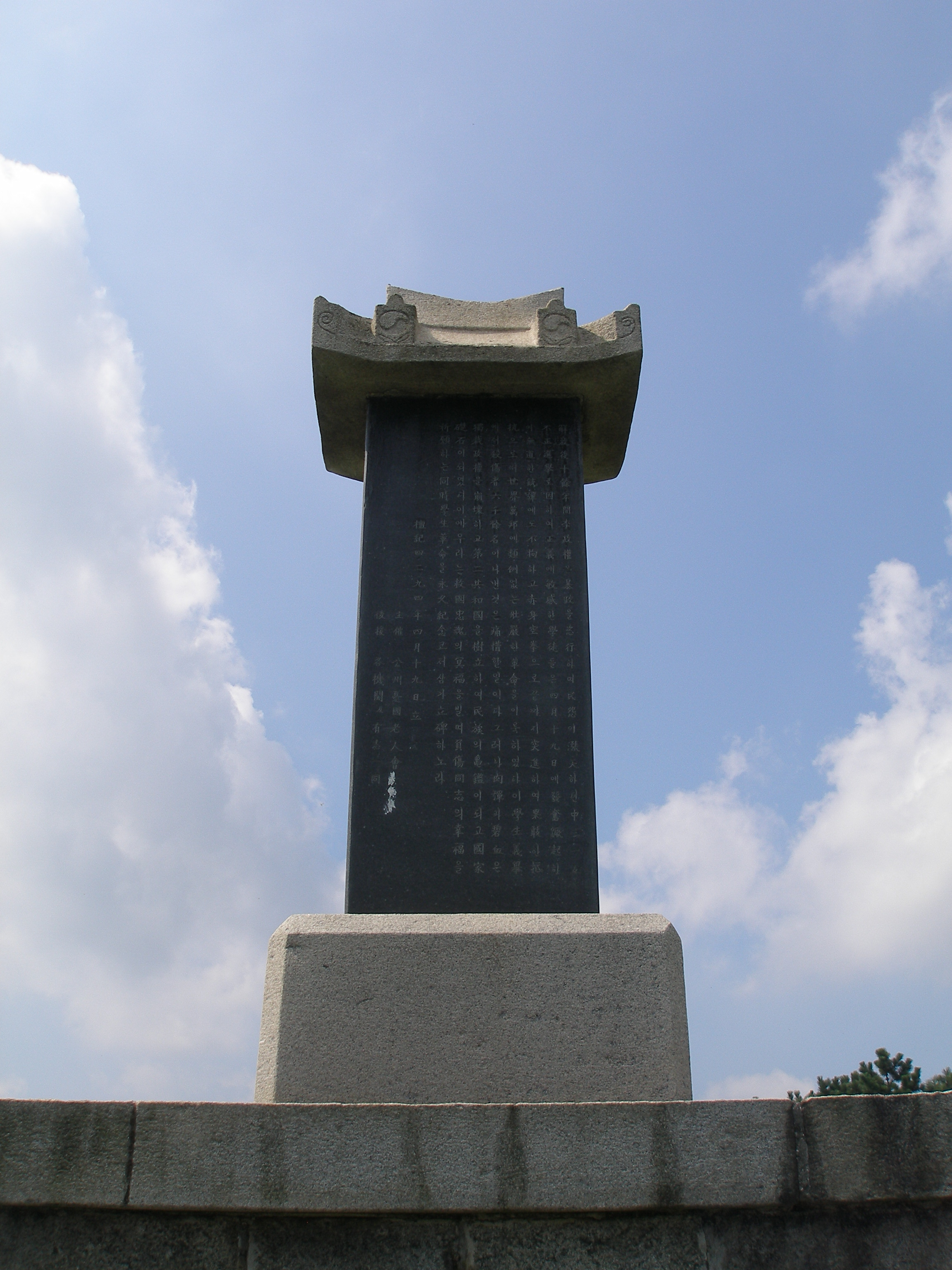 Memorandum Stone of April 19th Revolution in Korea, Senior club of Gongju built